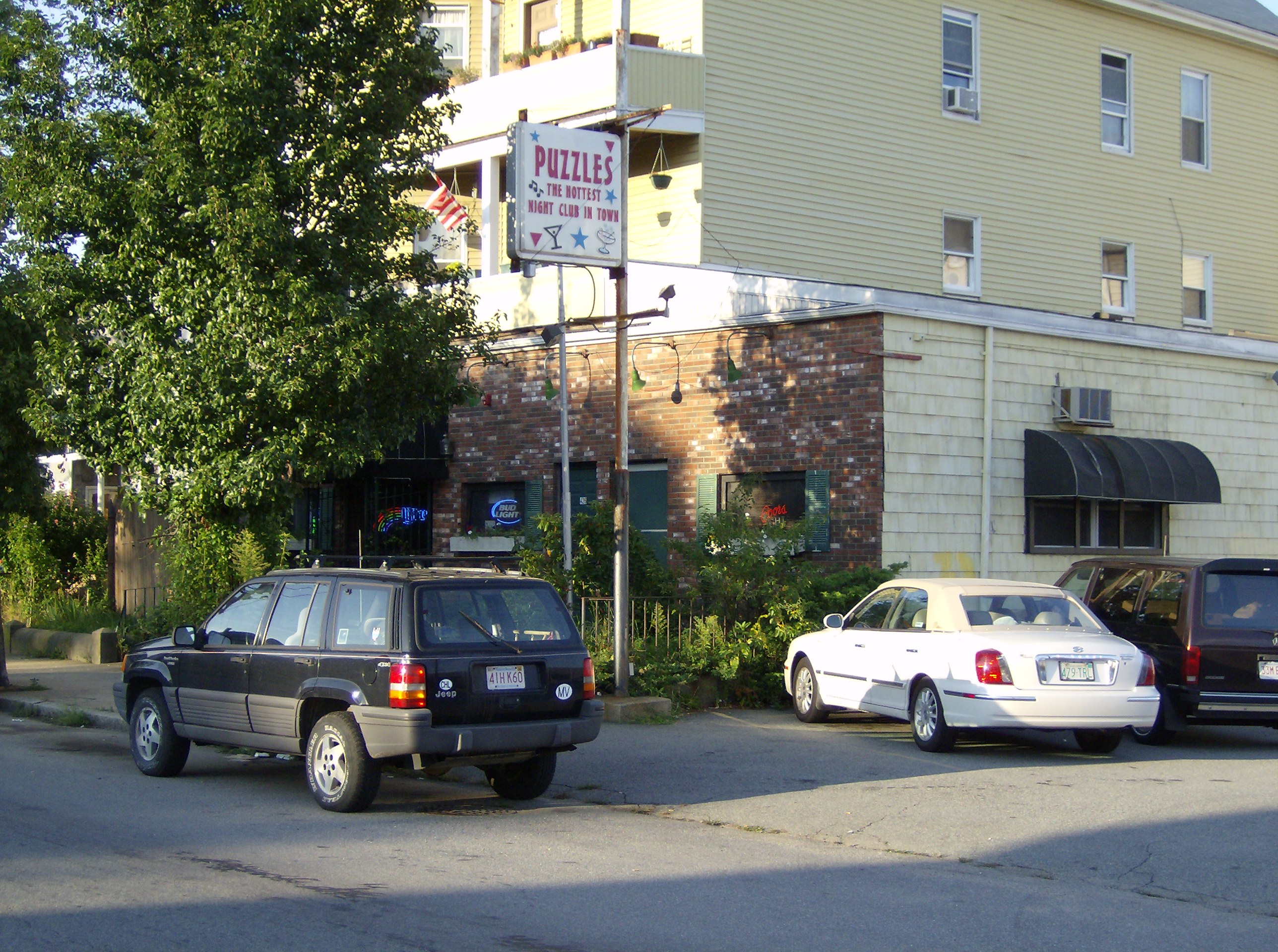 The Puzzles Lounge in New Bedford, Massachusetts. John Edwards, Proprietor.